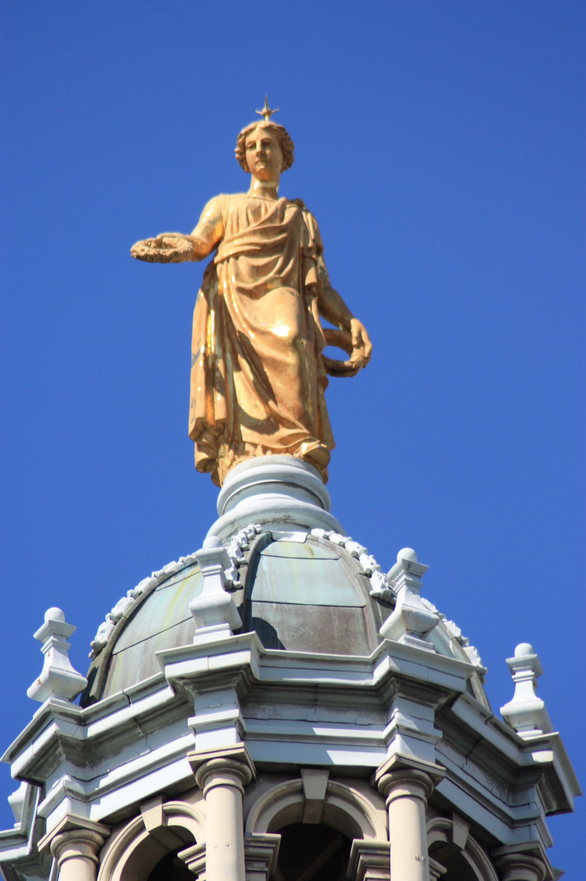 Golden statue of Nike on top of the main dome, Bank of Scotland Head Office, Edinburgh